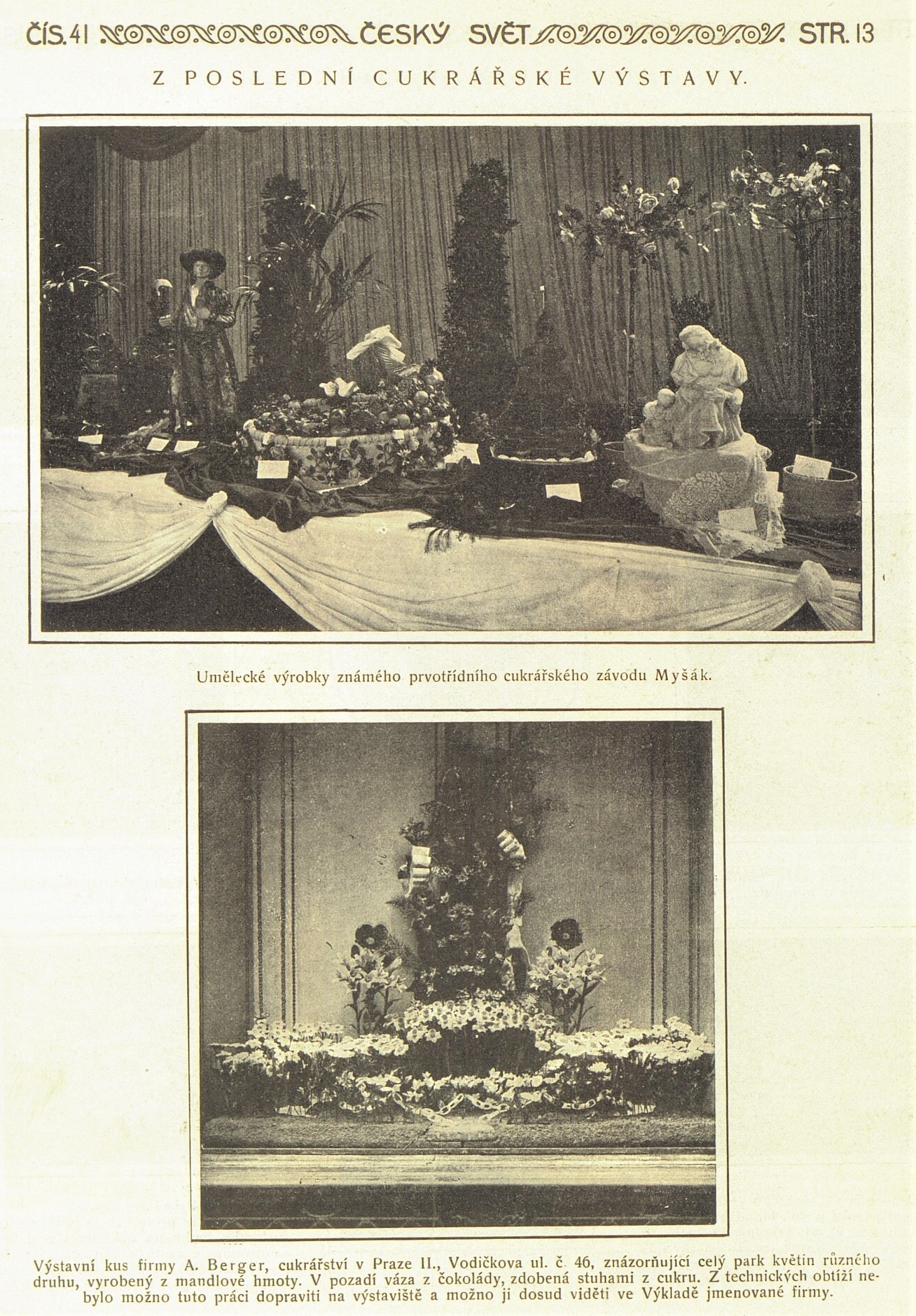 Products of confectioners Berger and Myšák, 1923